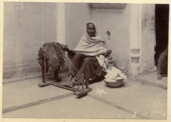 Woman at a spinning wheel, a silver gelatin photograph, c.1890's Source: ebay, Oct. 2005